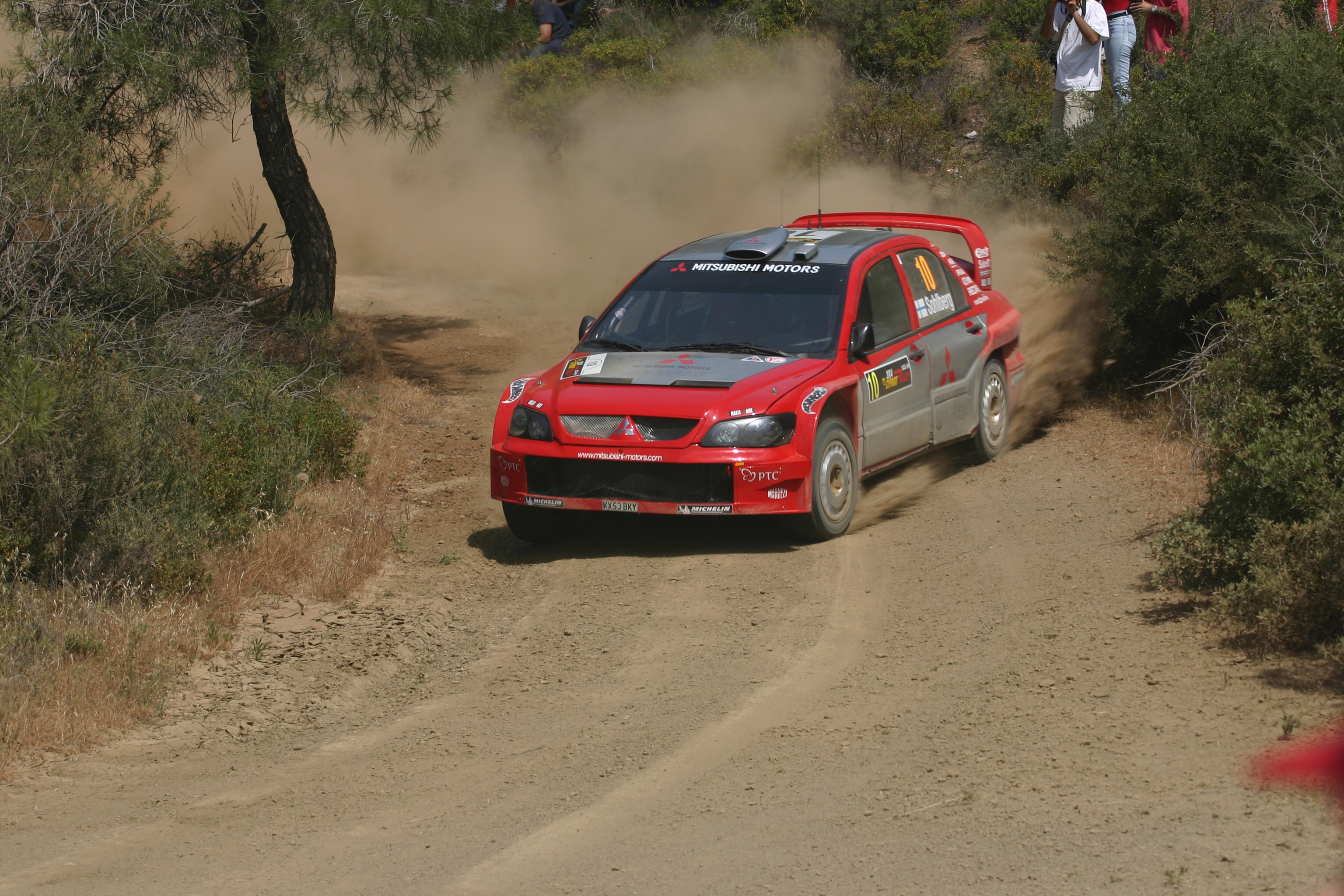 Kristian Sohlberg driving his Mitsubishi Lancer WRC04 during the 2004 Cyprus Rally.